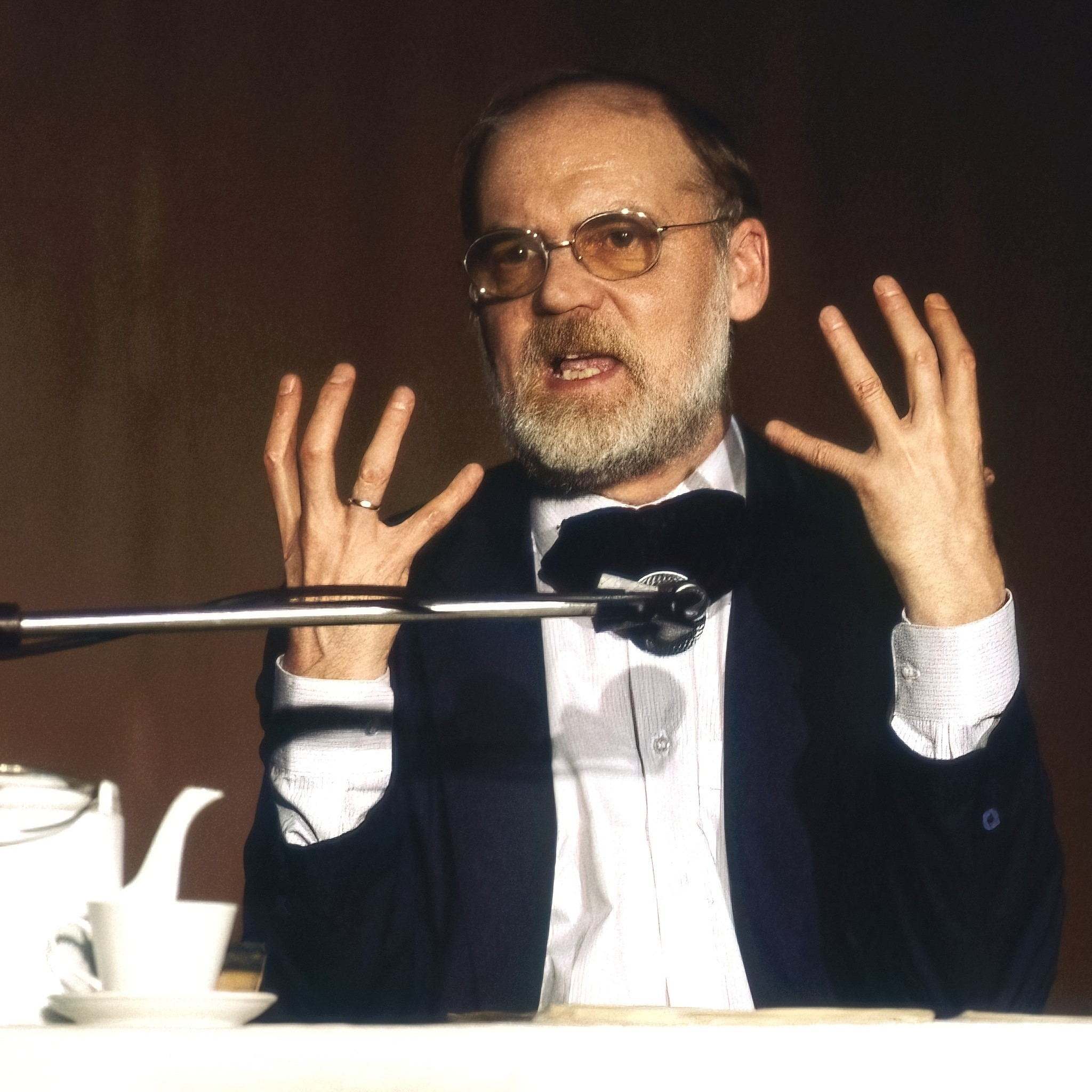 The late German cabaret artist and satirist Hanns Dieter Hüsch pictured during a live performance in February 1983. Scan of an Ektachrome slide taken by myself with a Canon F1 camera and a FD 2.8/300L lens.